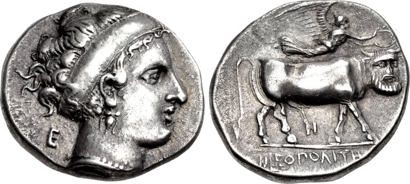 Campania, Neapolis. 350-325 BC. AR Nomos (20mm, 7.30 g, 7h). Head of nymph right, wearing broad headband, triple-pendant earring, and pearl necklace; E behind neck Man-headed bull walking right, head facing; above, Nike flying right, placing wreath on bull's head; N below, NEOΠOΛITH[Σ] in exergue.